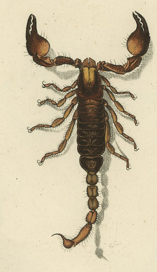 Opistophthalmus capensis